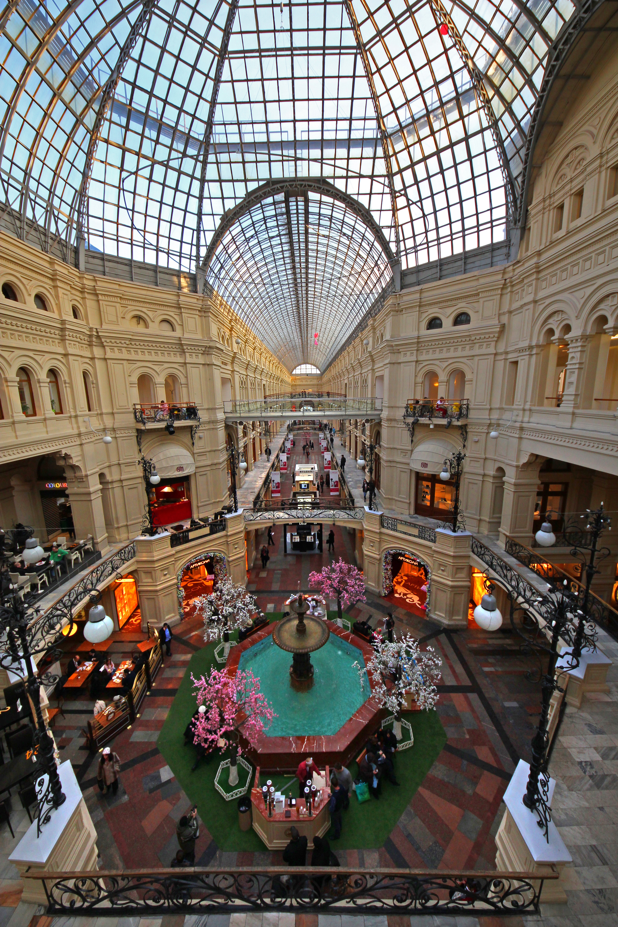 GUM (Main Universal Store) in Moscow, middle line, view from third floor